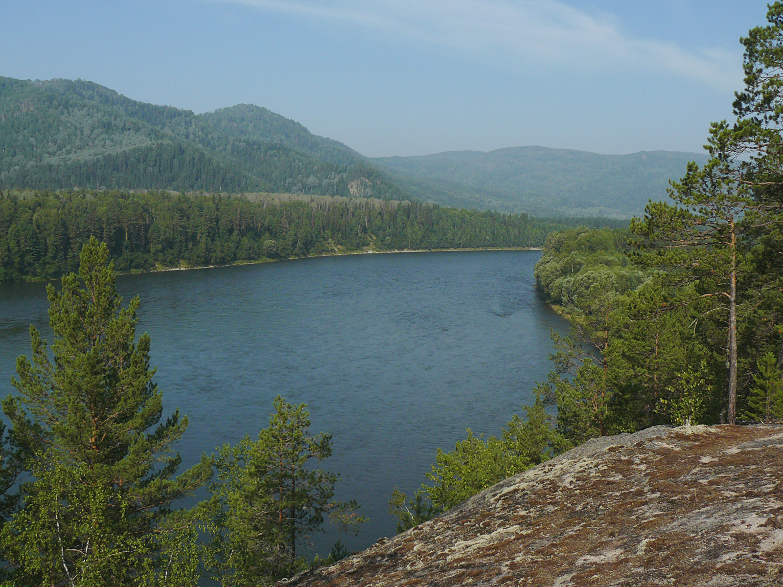 Biya river from the top of Badanka mountain, 9 km upstream from Turochak.